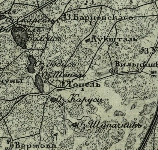 "Shubert's map". Fragment of topographic map of Russian Empire. 3 versta in inch (1260 m in 1 cm).